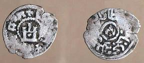 A photo of a coin from Kaffa bearing Dawlat Berdi's name. From